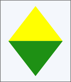 Shoulder flash, 1st Infantry Division (South Africa)